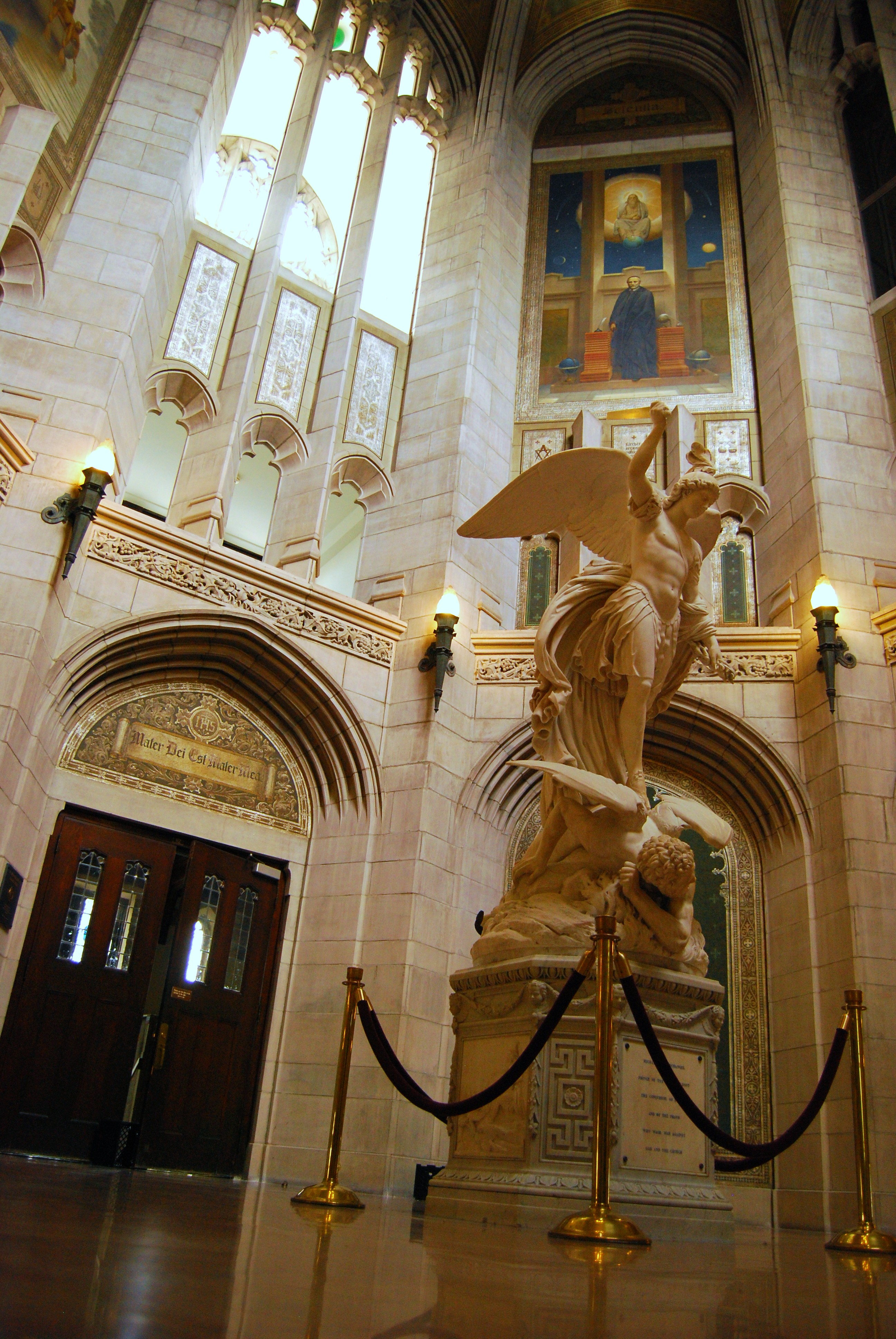 © Matthew Hendricks. Photograph depicts the interior rotunda of Gasson Hall (built 1913) at Boston College and a statue of Saint Michael created by Italian sculptor Scipione Tadolini in 1869. The building and artwork predate any copyright restrictions in the United States.